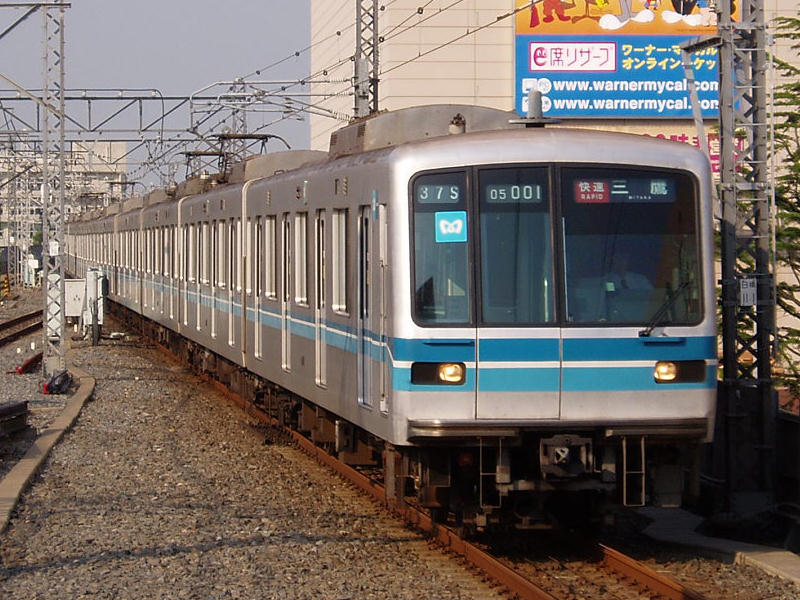 Tokyo Metro type 05 series at Myoden Sta.